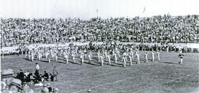 The Texas Longhorns marching band during halftime of the 1921 game between Vanderbilt and Texas at the state fair.